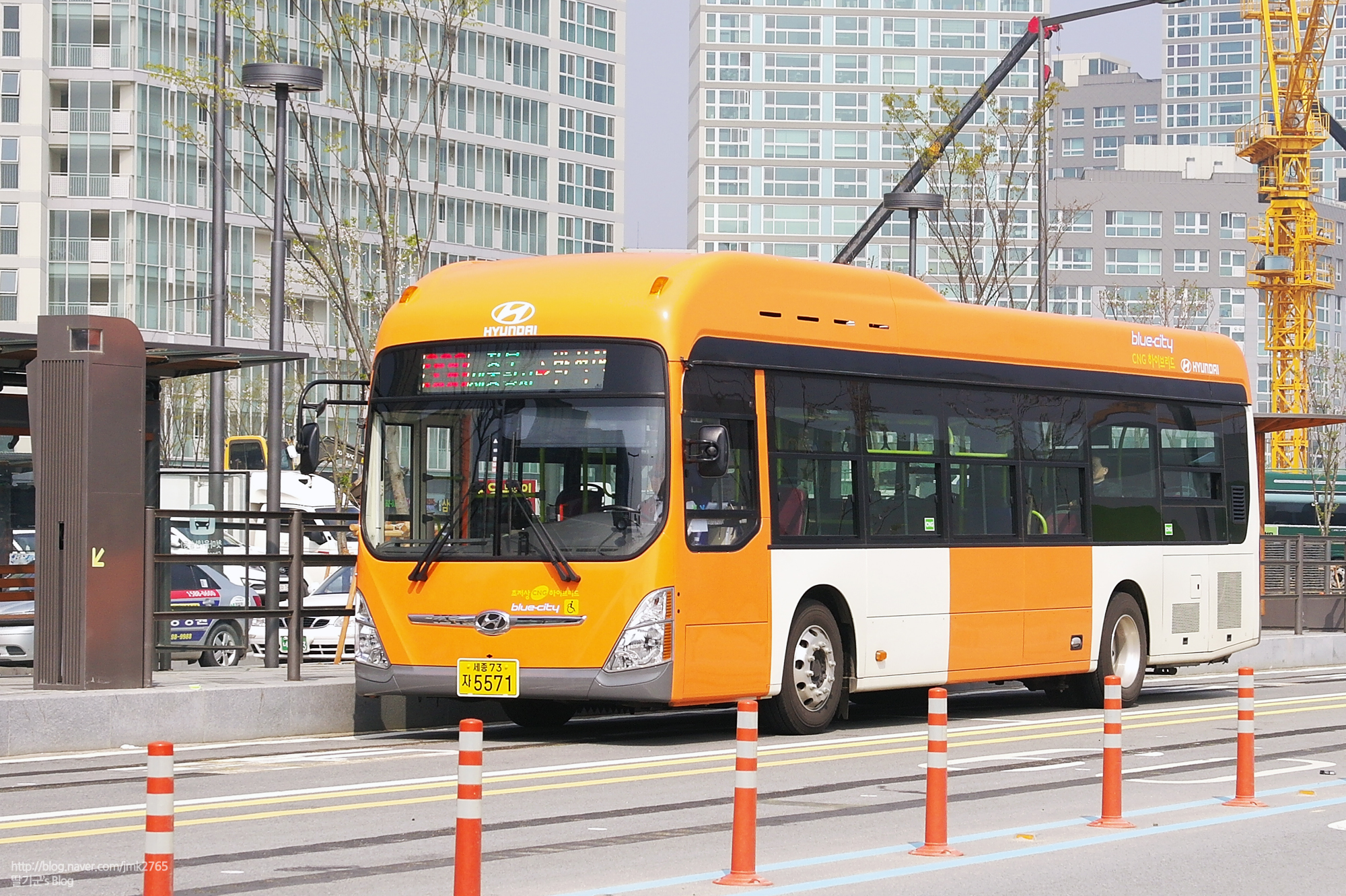 Hyundai BlueCity